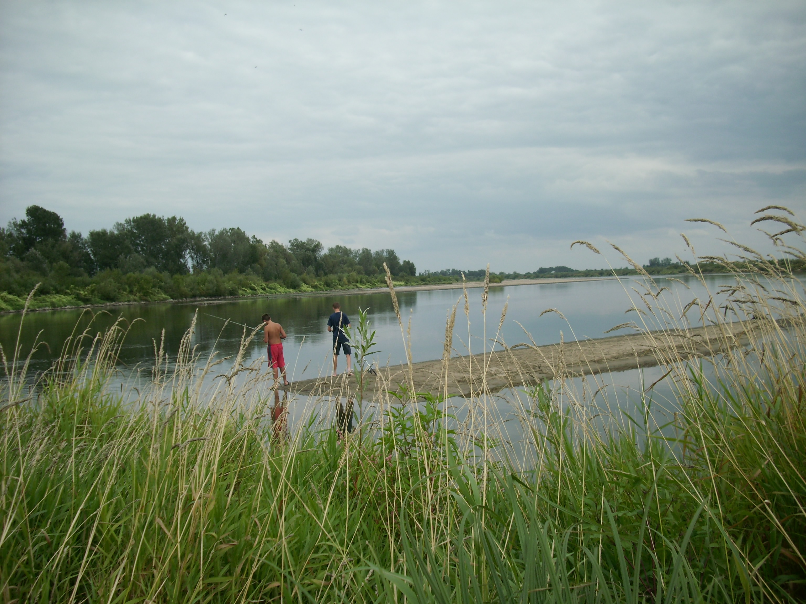 Vistula